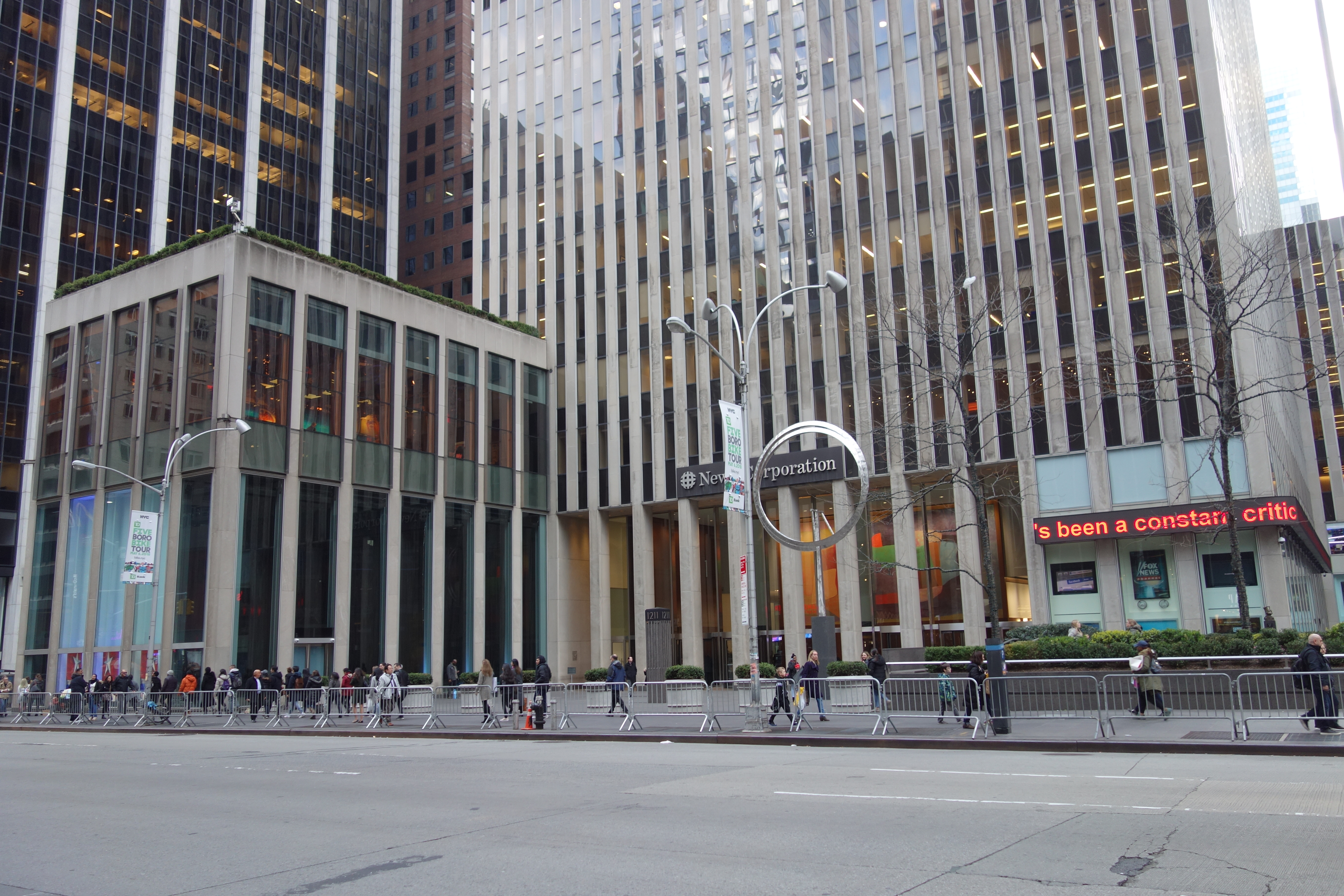 The News Corp / Fox News building (1211 Avenue of the Americas), at the southwest corner of Sixth Avenue and 48th Street in Rockefeller Center, Midtown Manhattan.